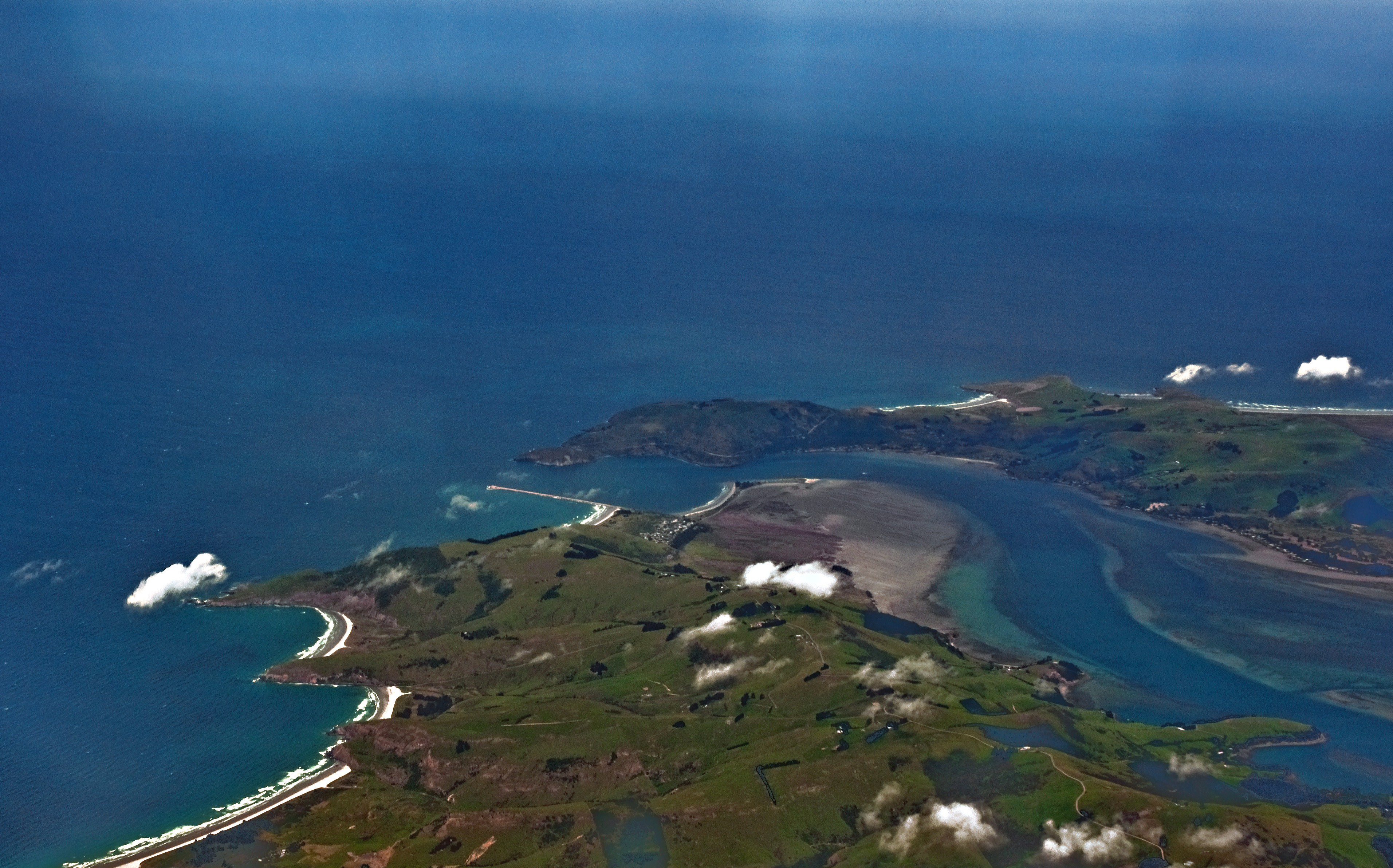 Departing Dunedin for Wellington in an air NZ Boeing 737